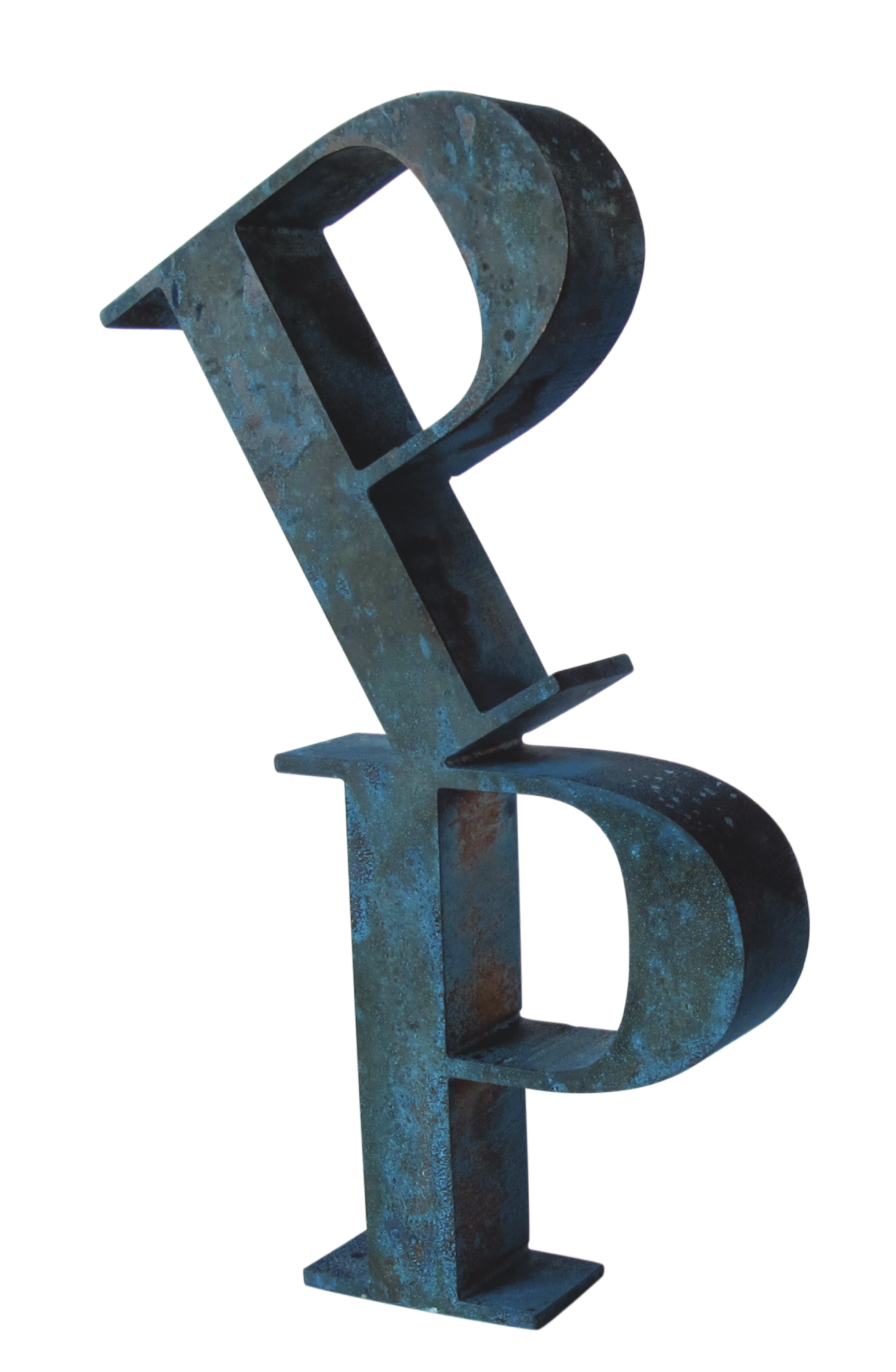 The prize statuette for The Publishing Prize was designed by Petter Antonisen, who is a freelance graphic designer and art director. The statuette is made of steel. Through electrolysis the surface is covered by a layer of copper, whereupon the statuette is patinated by Stockholm sculptor Bo Andersson. One of his specialities is metallic works of art. Through various surface treatments, he creates unique colors on the metal.